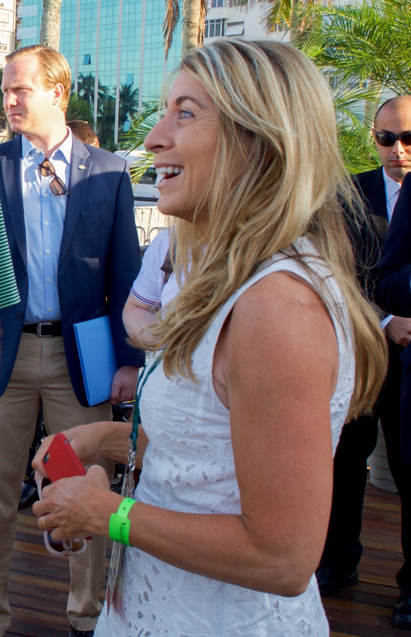 U.S. Secretary of State John Kerry chats with Comcast Chairman Brian Roberts and NBC News President Deborah Turness along the Copacabana beach in Rio de Janeiro, Brazil, on August 6, 2016, before conducting an interview with the NBC News "Today" program about the 2016 Summer Olympic Games. [State Department Photo/ Public Domain]